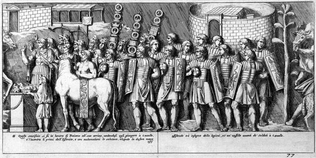 Fight scenes from the Dacian-Roman wars, derived from Trajan's Column and Tropaeum Traiani. Eitching, Rome, 1667